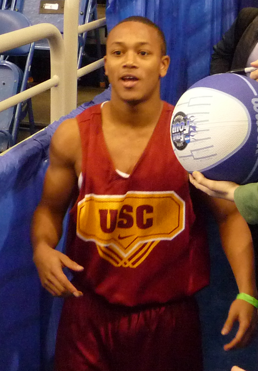 USC Trojans basketball player and music artist Percy "Romeo" Miller enters the court before a practice at the Metrodome in Minneapolis, Minnesota before round one of the 2009 NCAA Tournament.